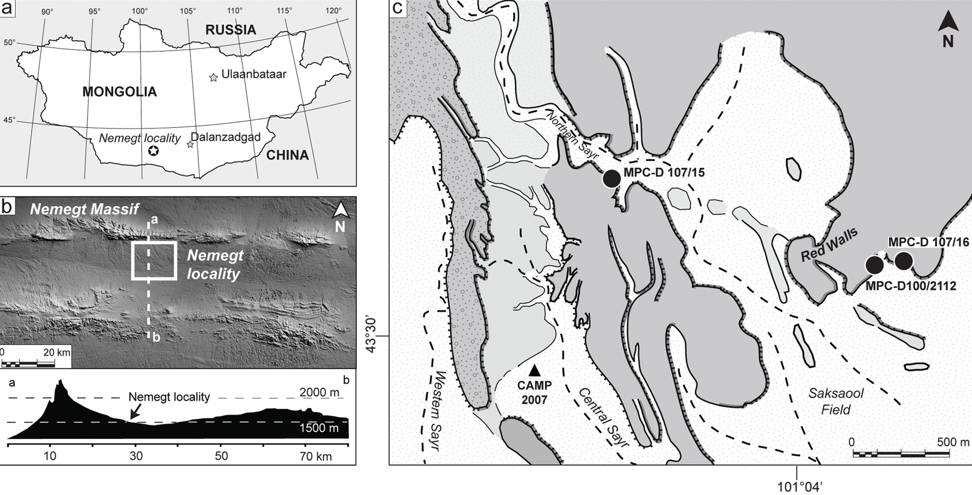 The Nemegt locality the Gobi Desert, southern Mongolia. A, map showing the location of the study area within southern Mongolia; B, the Nemegt area is located a few kilometers south of the massif of the same name; C, a detail of the Nemegt locality (sensu 5), showing the exact locations of Nemegtomaia specimens described in this study.